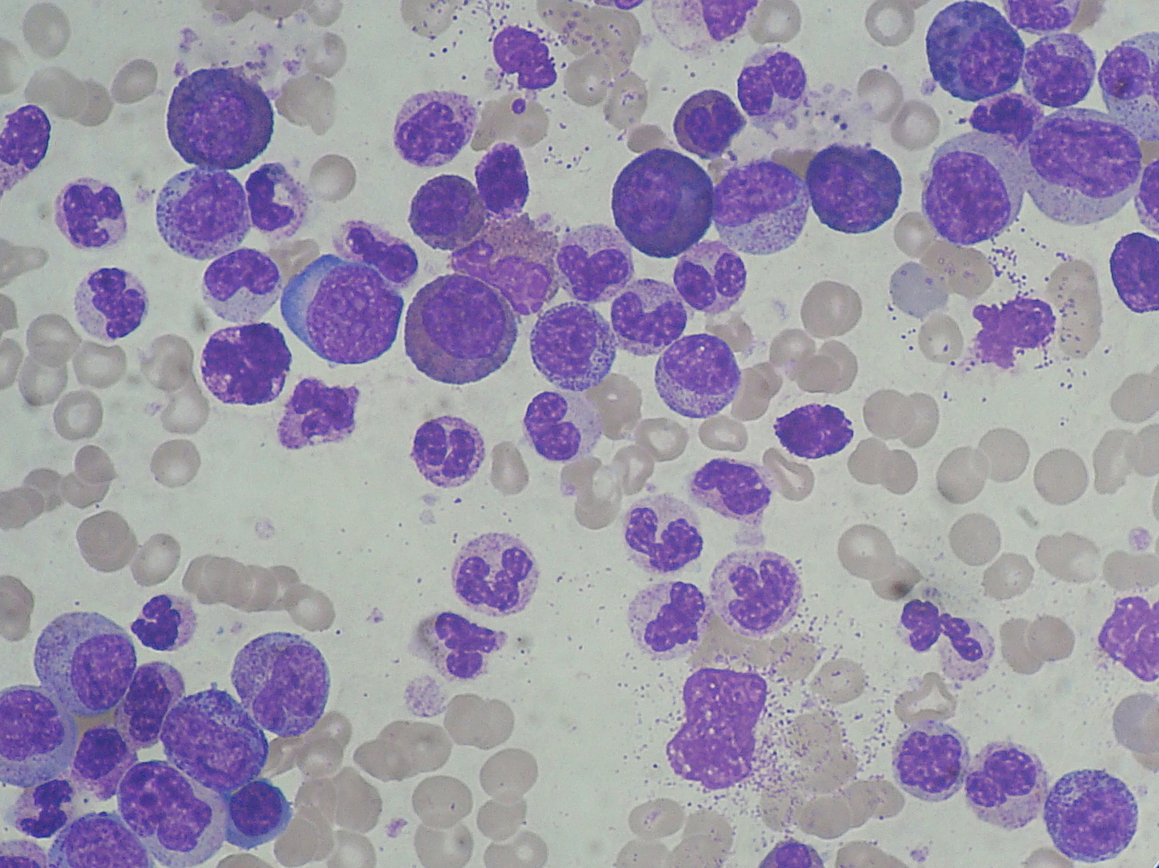 Chronic myeloid leukemia (CML): marked leucocytosis with granulocyte left shift.